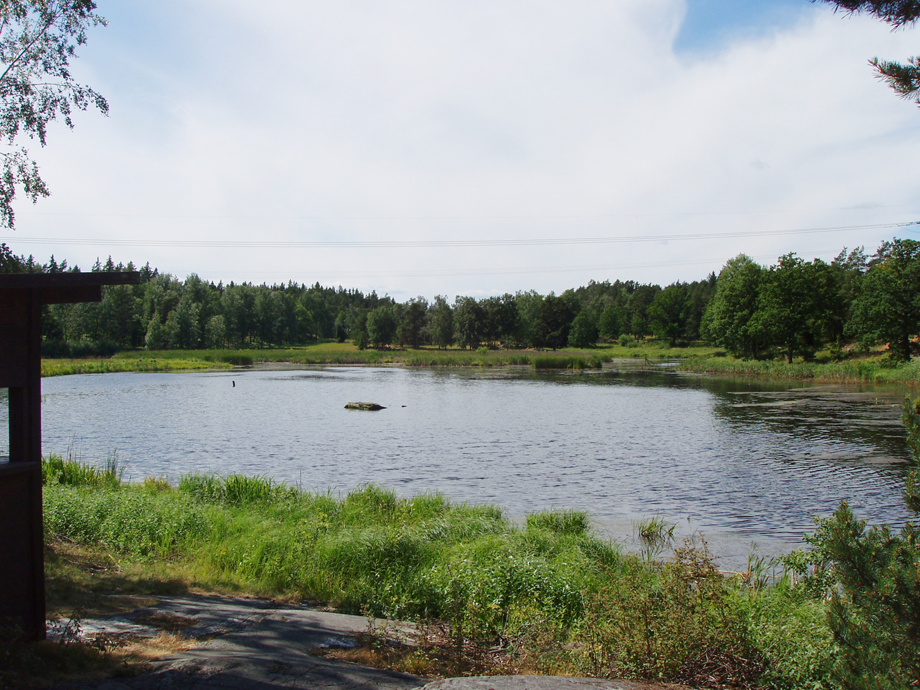 Lake "Västra Långängskärret", Lidingö, june 2008. Sjön Västra Långängskärret, Lidingö, juni 2008.